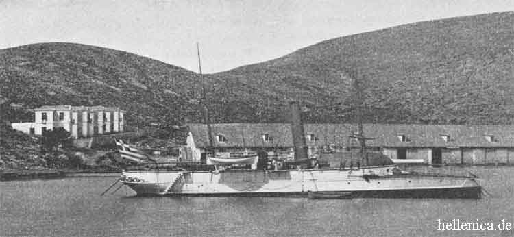 A colour washed photograph of the Greek gunboat Aktion. In 1881 Greece had 2 Rendel gunboats built at Blackwall Yard for the shallow waters of the Ambracian Gulf. They saw action in 1897 and Balkan Wars, served the Piraeus and Keratsini net barrage during World War I and were scrapped in 1919.